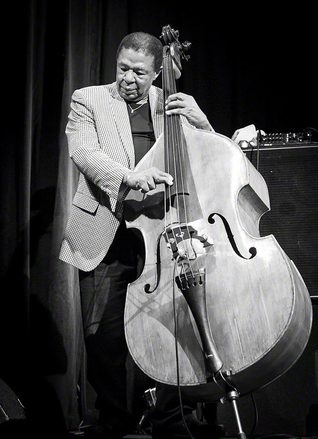 Buster Williams performs with Chestnut, Williams & White at the stage of Nasjonal Jazzscene Victoria. The concert was part of the Oslo Jazz Festival in Norway and took place on 14. August 2016. The super trio played at the first night of the festival. They have coorperated since 2015 and released one album, ”Natural Essence”.Lineup: Cyrus Chestnut (piano), Buster Williams (double bass), Lenny White (drums)